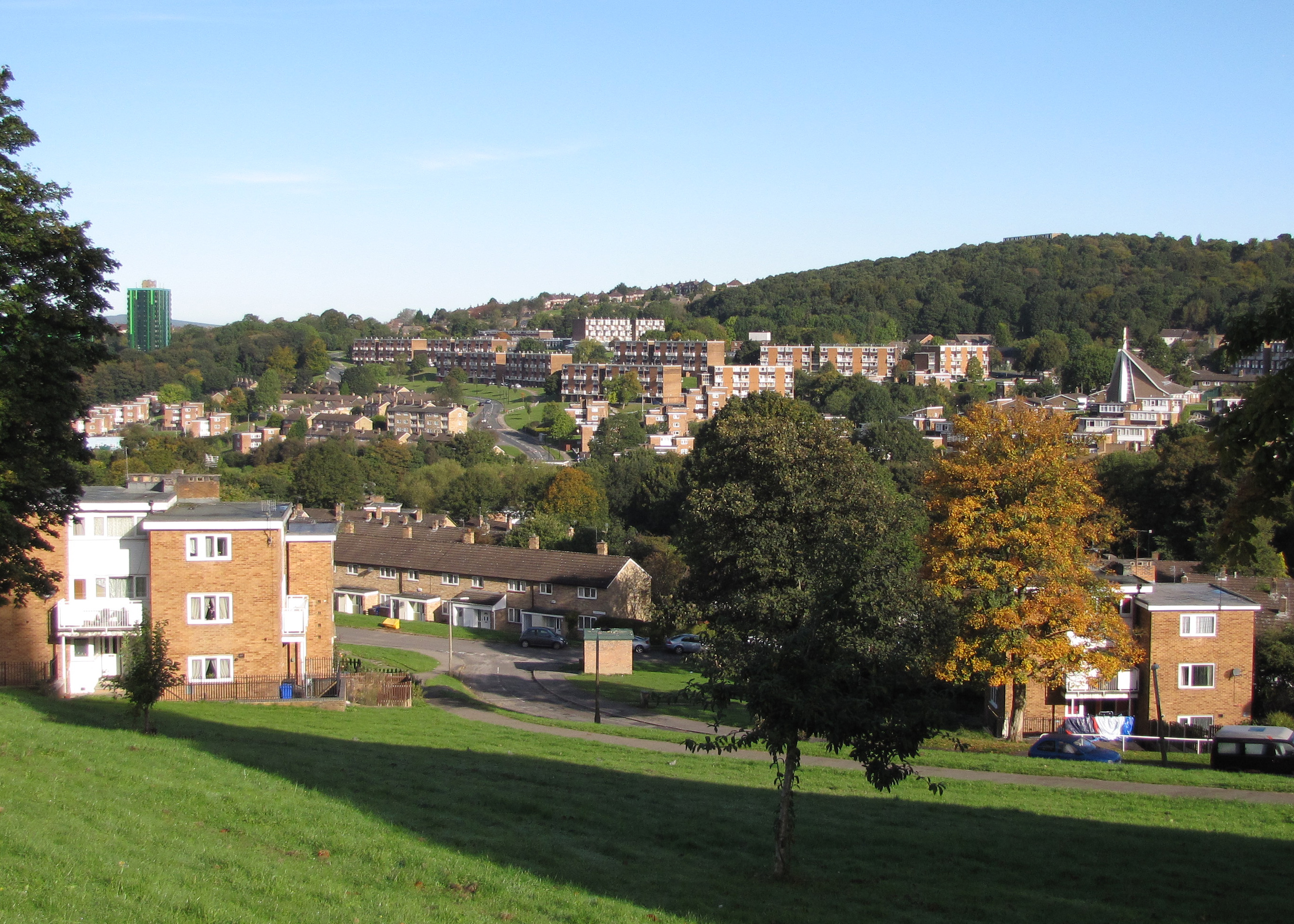 A view of the Gleadless Valley housing estate in Sheffield, England. Looking north from Overend Rd / Blackstock Rd.